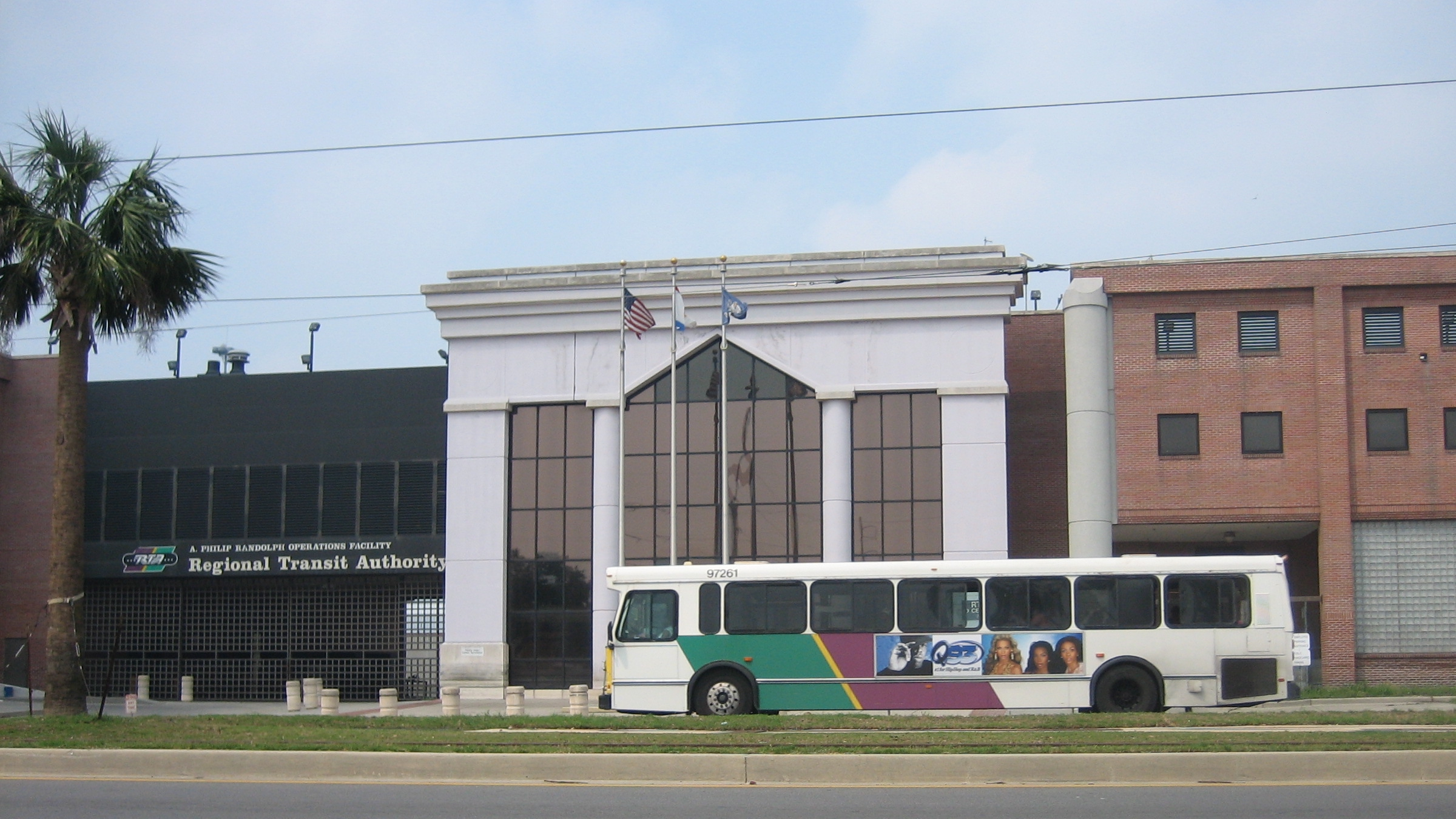 New Orleans Regional Transit Authority building on Canal Street.